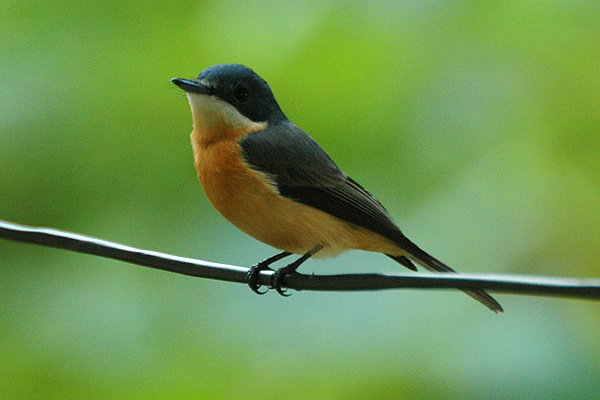 Female Vanikoro Flycatcher (Myiagra vanikorensis)